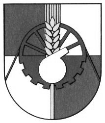 old Coat of Arms of Stassfurt from 1960 - 1990